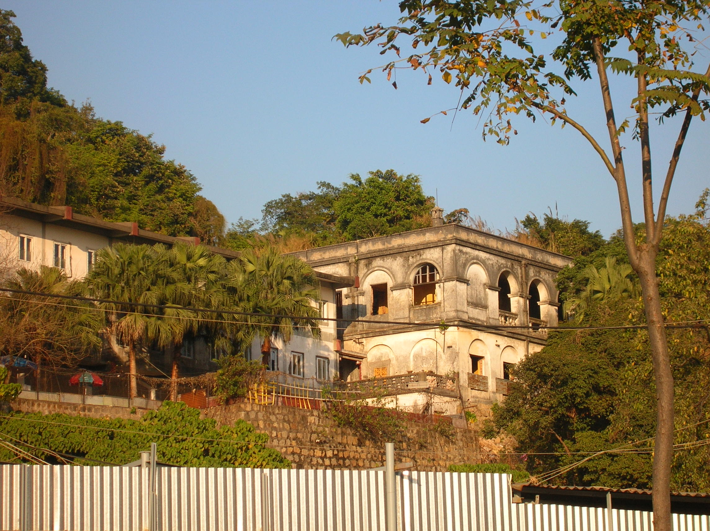 Monastery Ilha Verde